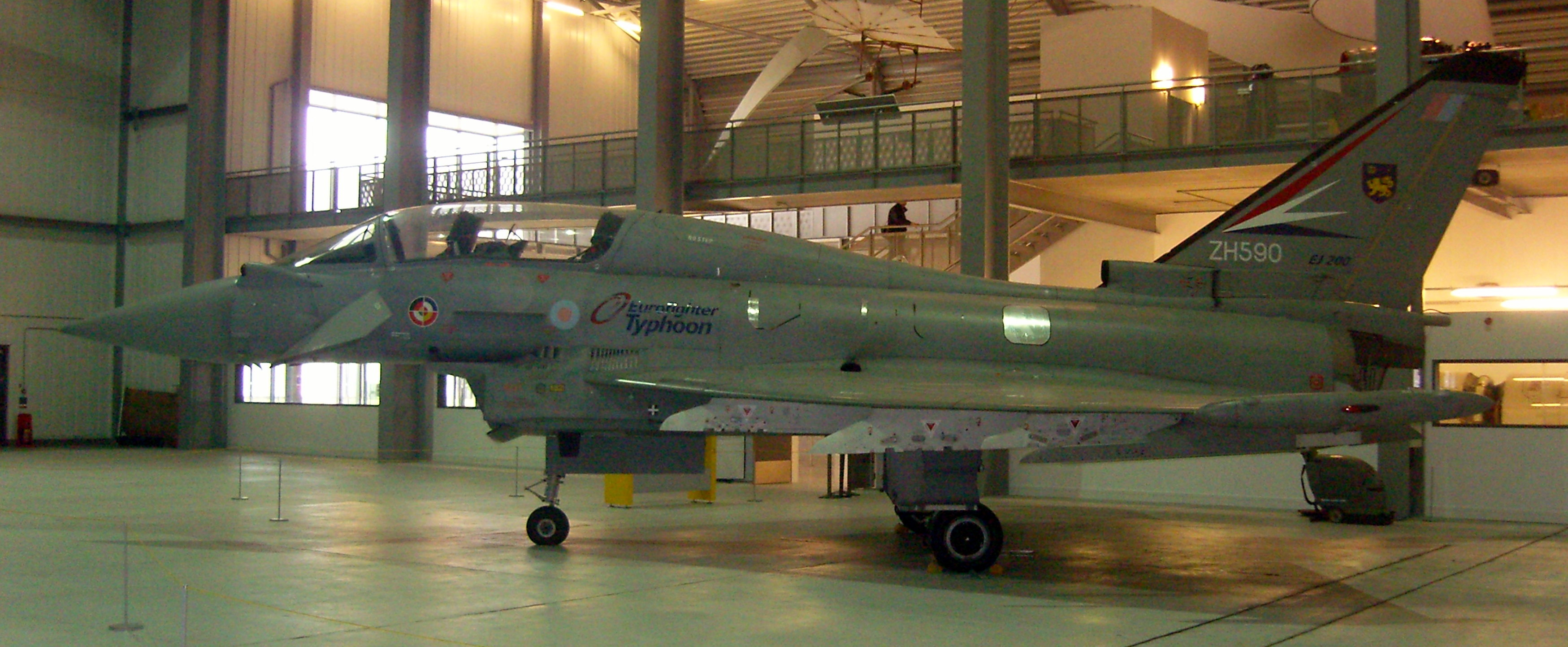 Photo ref; SNC16516 (Edited)